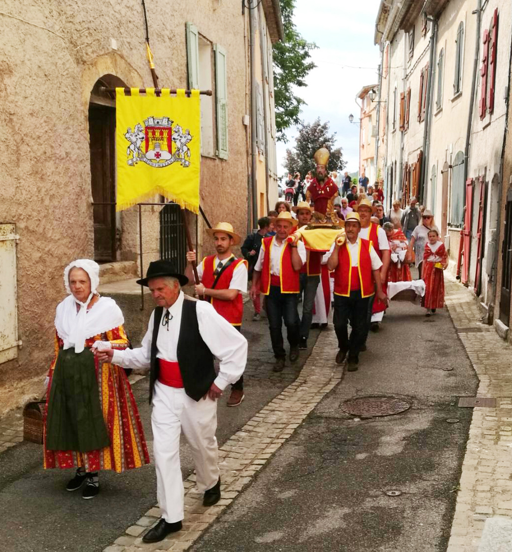 Procession Saint-Leger Montmeyan, Var, France